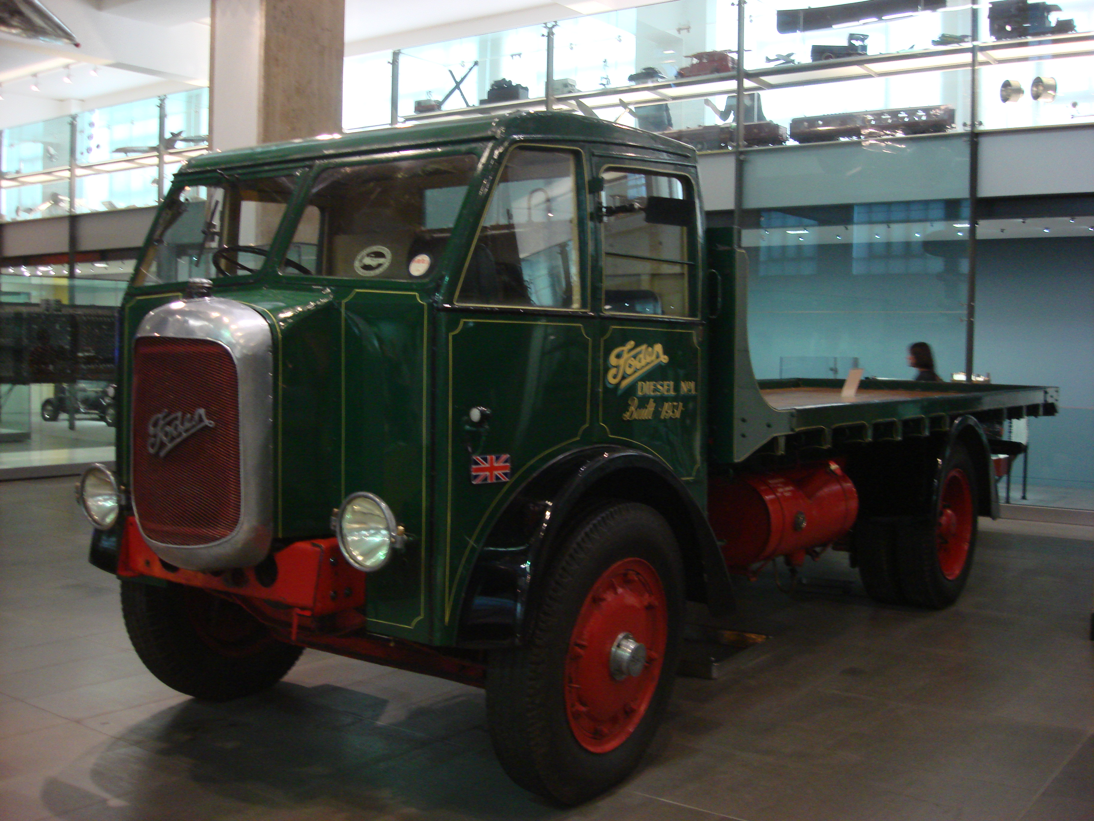 Foden F1 Diesel Lorry 1931 at the Science Museum (London). An early example of a high-speed diesel engine, in use for road transport.